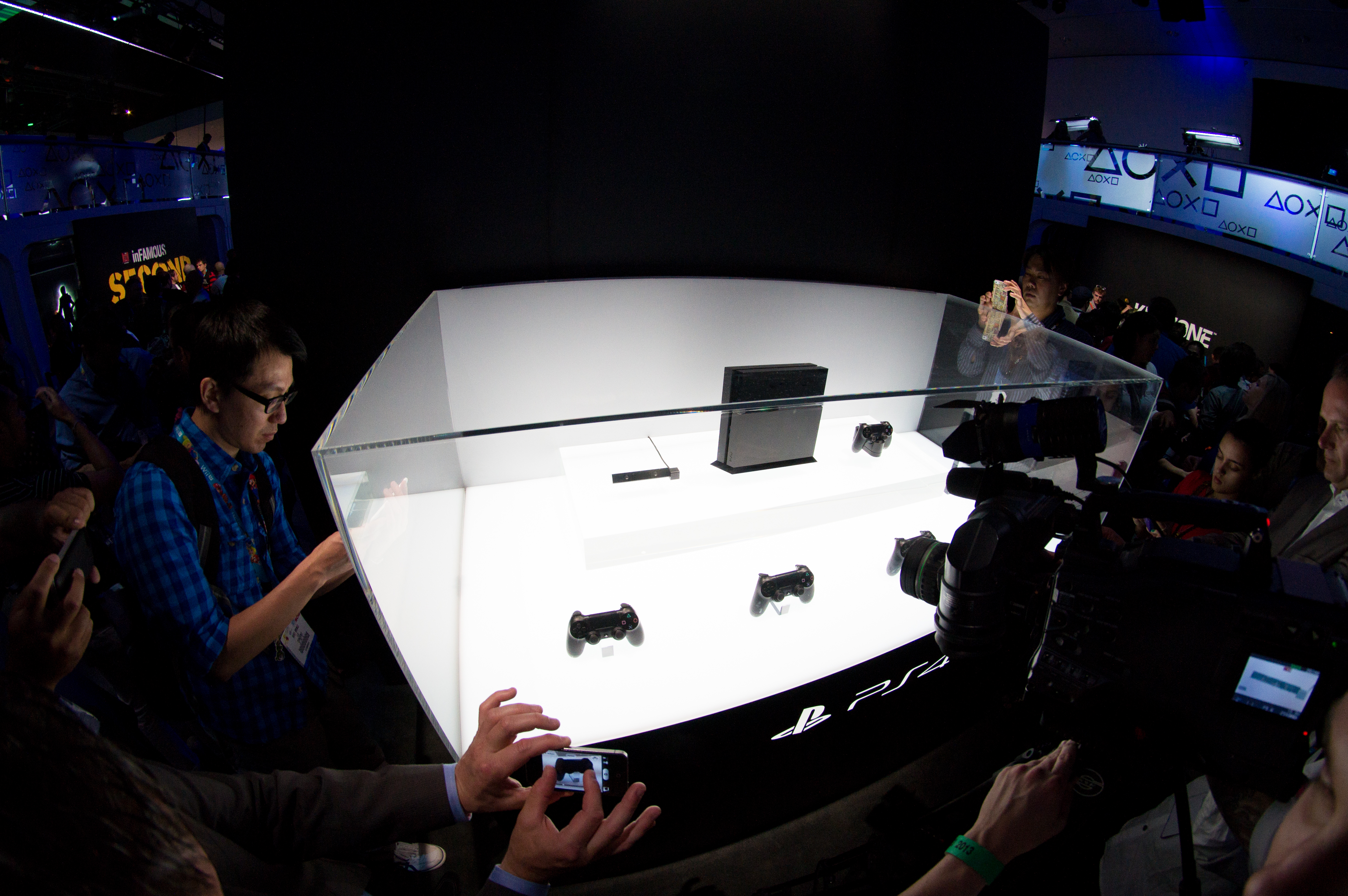 Playstation 4 display at E3 2013